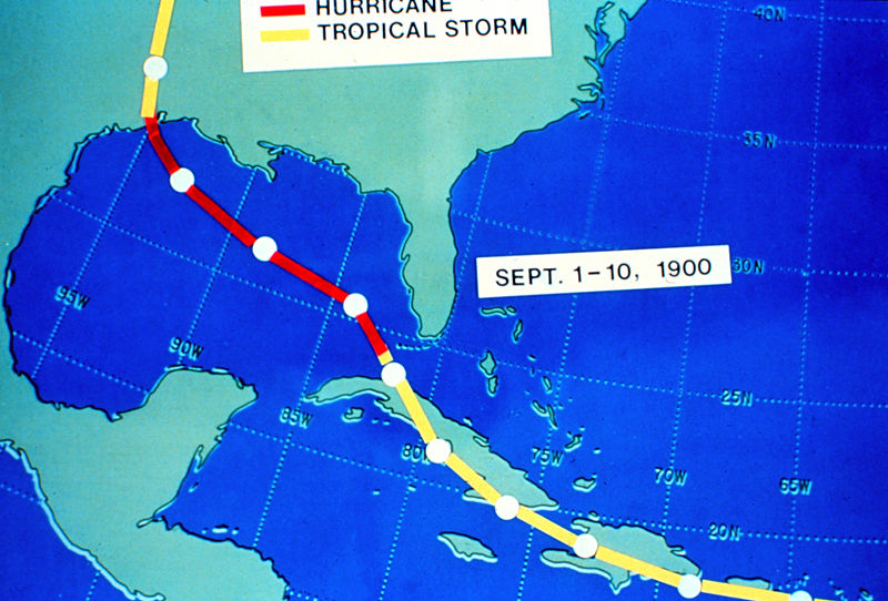 The track of the Galveston Hurricane. This was the deadliest natural disaster in U.S. history. Between 6,000 and 8,000 people died in this storm.